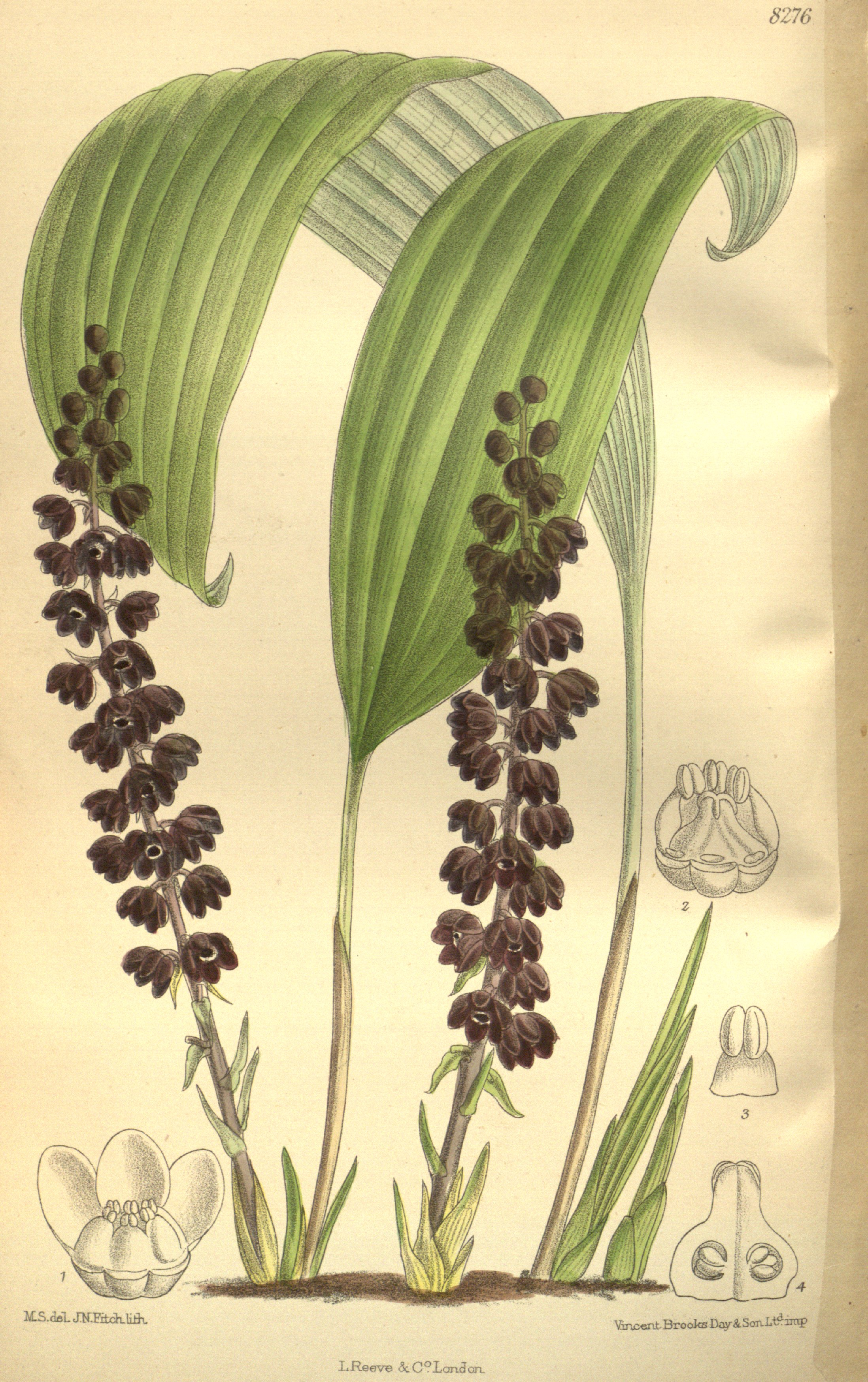 Peliosanthes violacea var. clarkei (= Peliosanthes teta subsp. humilis), Asparagaceae, Nolinoideae